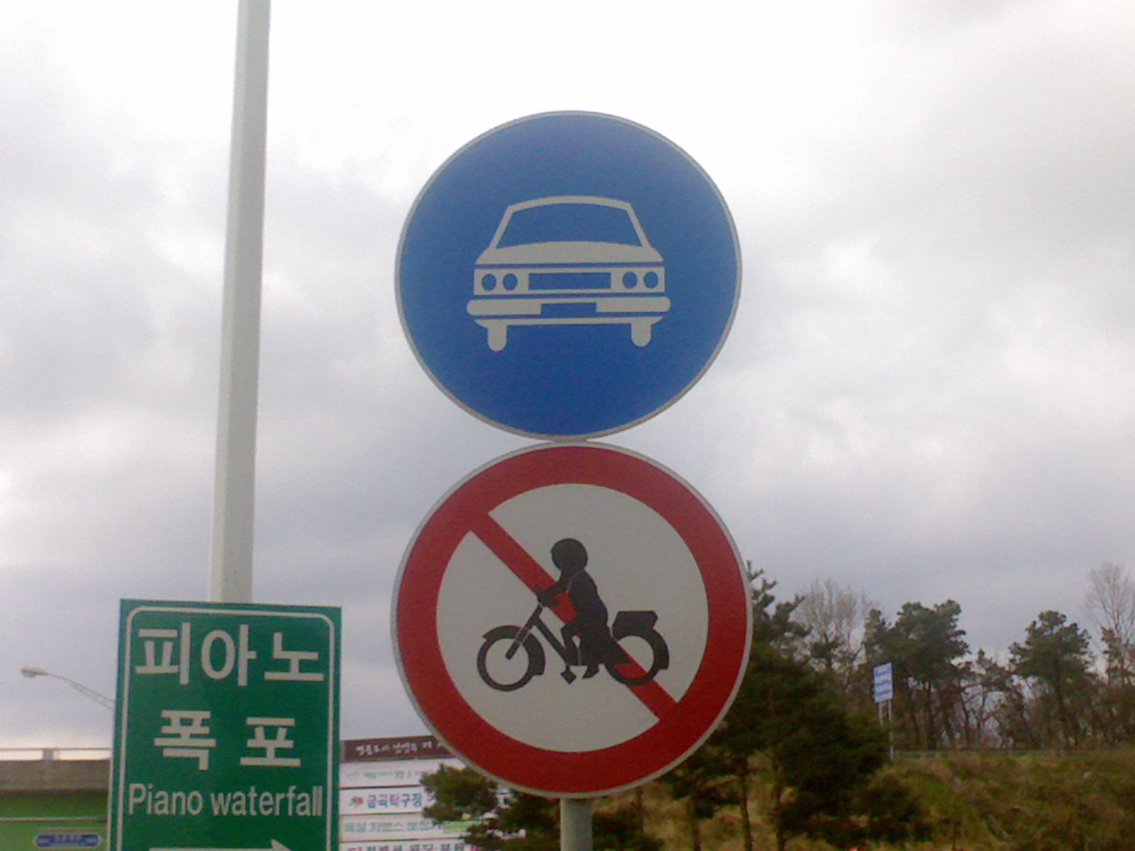 Korea Sign - Vehicles Only and No Thoroughfare for Motorcycles and Mopeds (old)